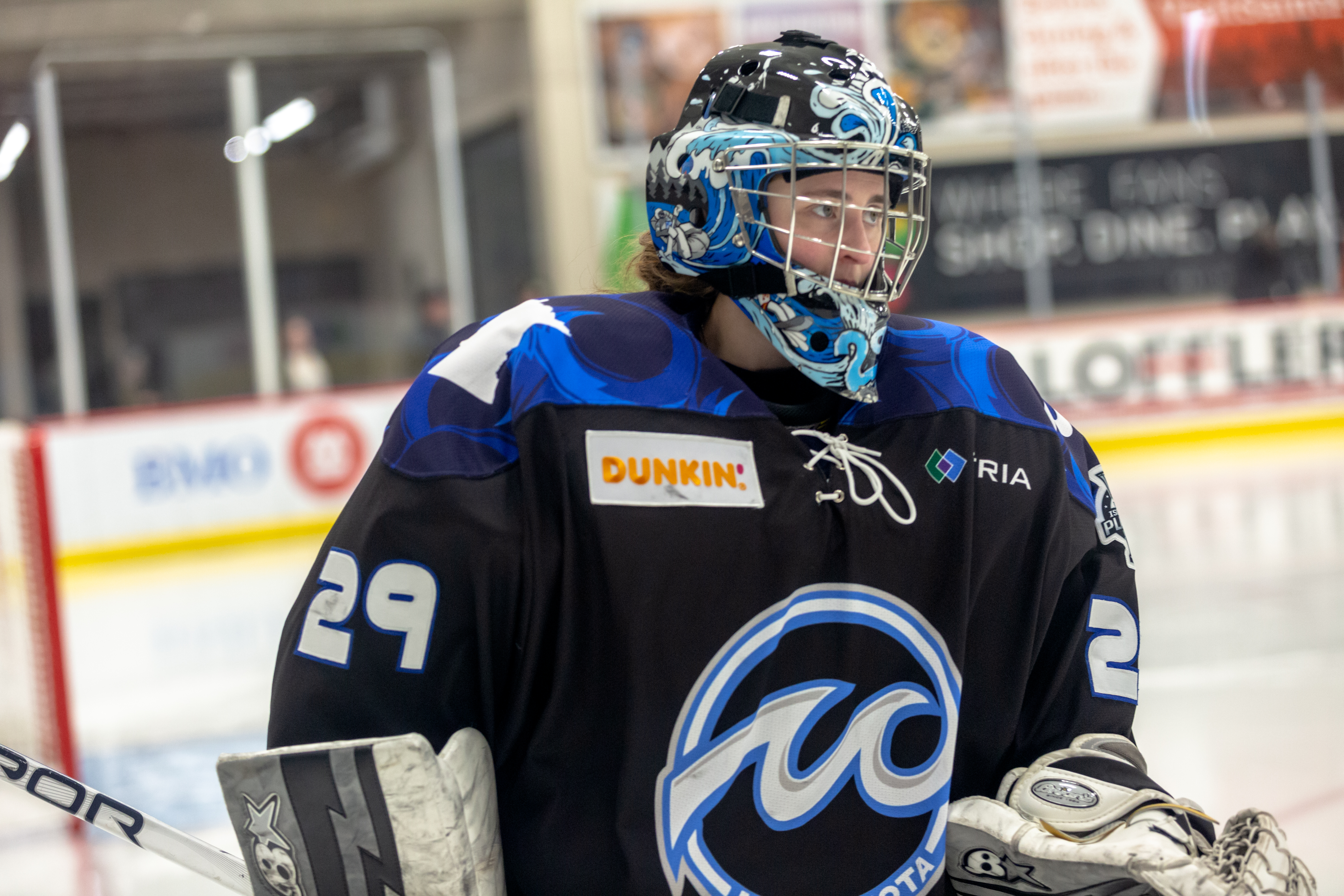 In their final game of the season, the Minnesota Whitecaps won in overtime to beat the Buffalo Beauts 2-1 and to capture the Isobel Cup for the 2018-19 inaugural season of the National Women’s Hockey League.